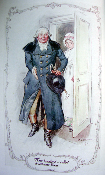 Sense and Sensibility, (Jane Austen Novel) ch 6 Picture of Sir John Middleton